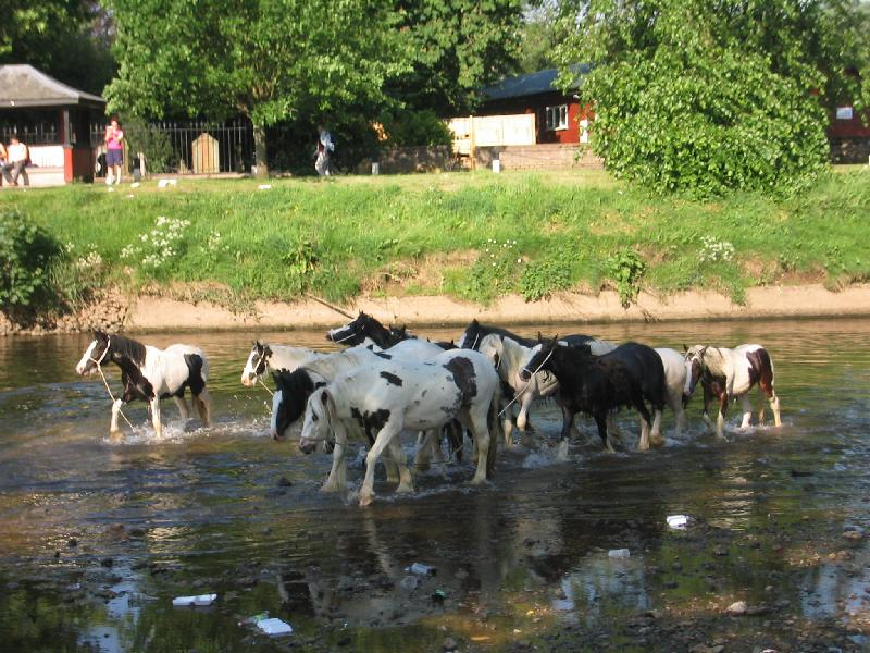 Photo of horses in a stream.]